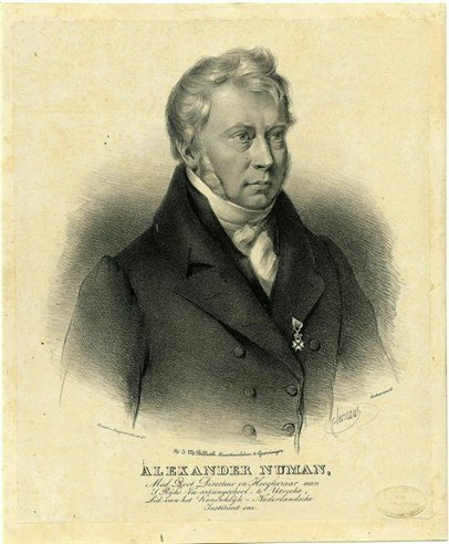 Alexander Numan (7 December 1789 – 1 September 1852), Dutch professor of veterinary medicine, teacher and writer. He was Director of the Rijksveeartsenijschool (National School of Veterinary Medicine) in Utrecht between 1821 and 1851. The original caption of the lithograph states: "ALEXANDER NUMAN, Med. Doct. Directeur en Hoogleeraar aan 't Rijks Vee-artsenijschool, te Utrecht, Lid van het Koninklijk-Nederlandsche Instituut enz." ["ALEXANDER NUMAN, Doctor of Medicine. Director and Professor at the National School of Veterinary Medicine, in Utrecht, member of the Royal Dutch Institute etc."].